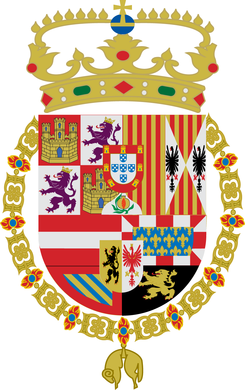 Coat of arms of the king Philip II of Spain and the monarchs of the House of Austria (from 1580 to 1668 / 1700)